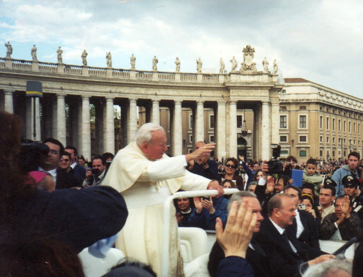 2000 World Youth Day, Rome (Italy)